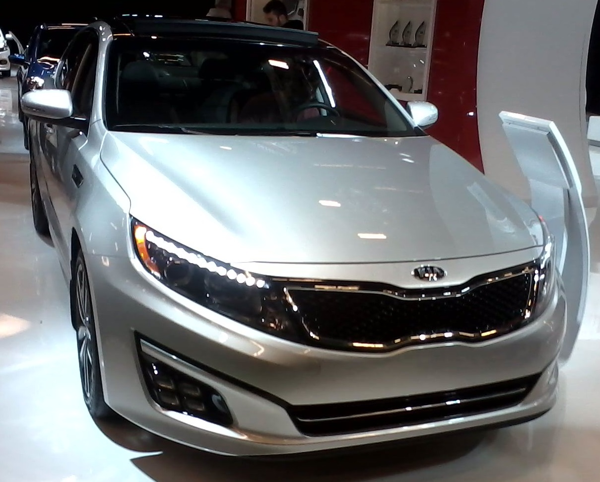 2014 Kia Optima photographed in Montreal, Quebec, Canada at the 2014 Montreal International Auto Show.